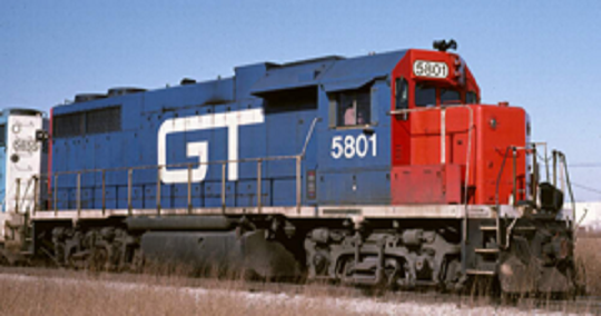 Grand Trunk locomotive